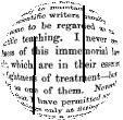 Original Wikipedia logo, used until late 2001, and originally from Nupedia.